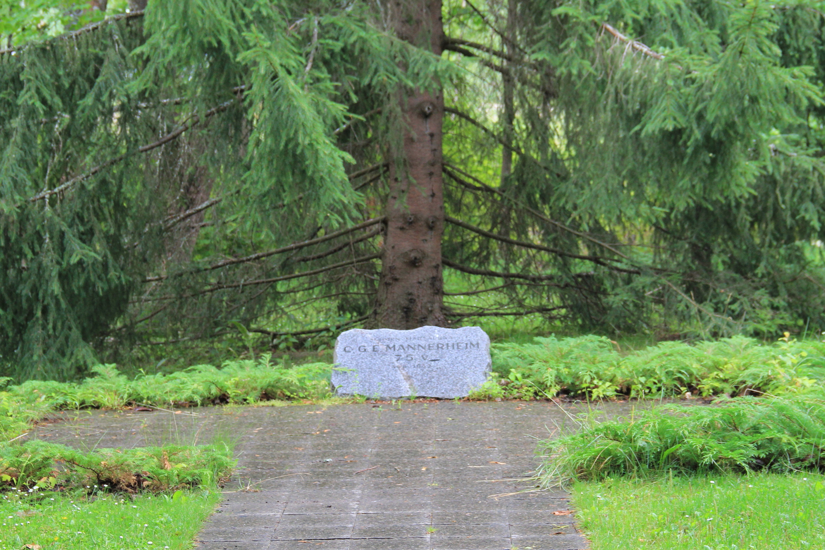 Plaque of C. G. E. Mannerheim 75 years celebration (1942-06-04), Vuoksenniska, Imatra, Finland. - Plaque was unveiled in 1984 and movet to its present site in 1994.